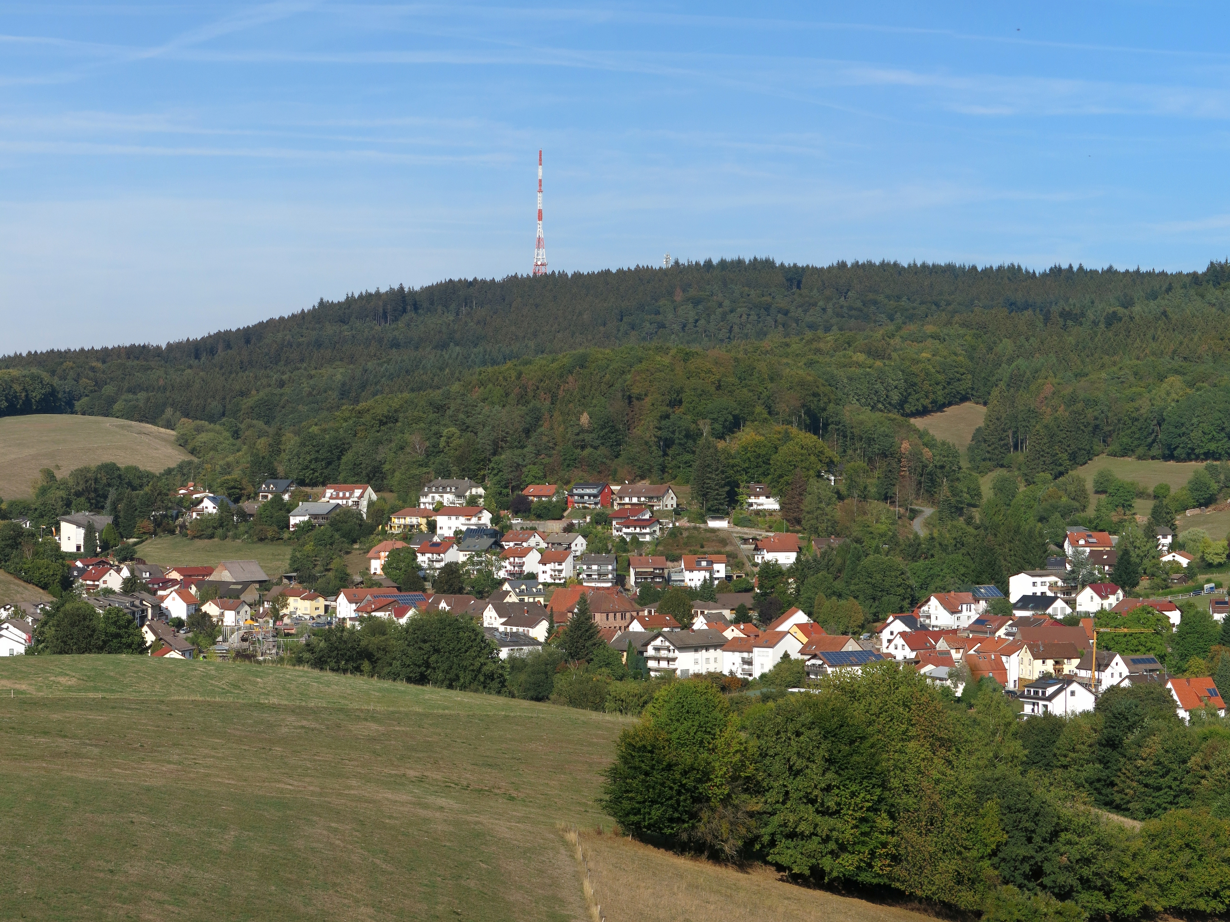 The Hardberg in the Odenwald, sen from southwest. In the foreground a part of Unter-Abtsteinach.